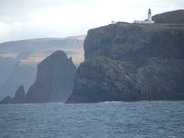 Cape Wrath from seaward